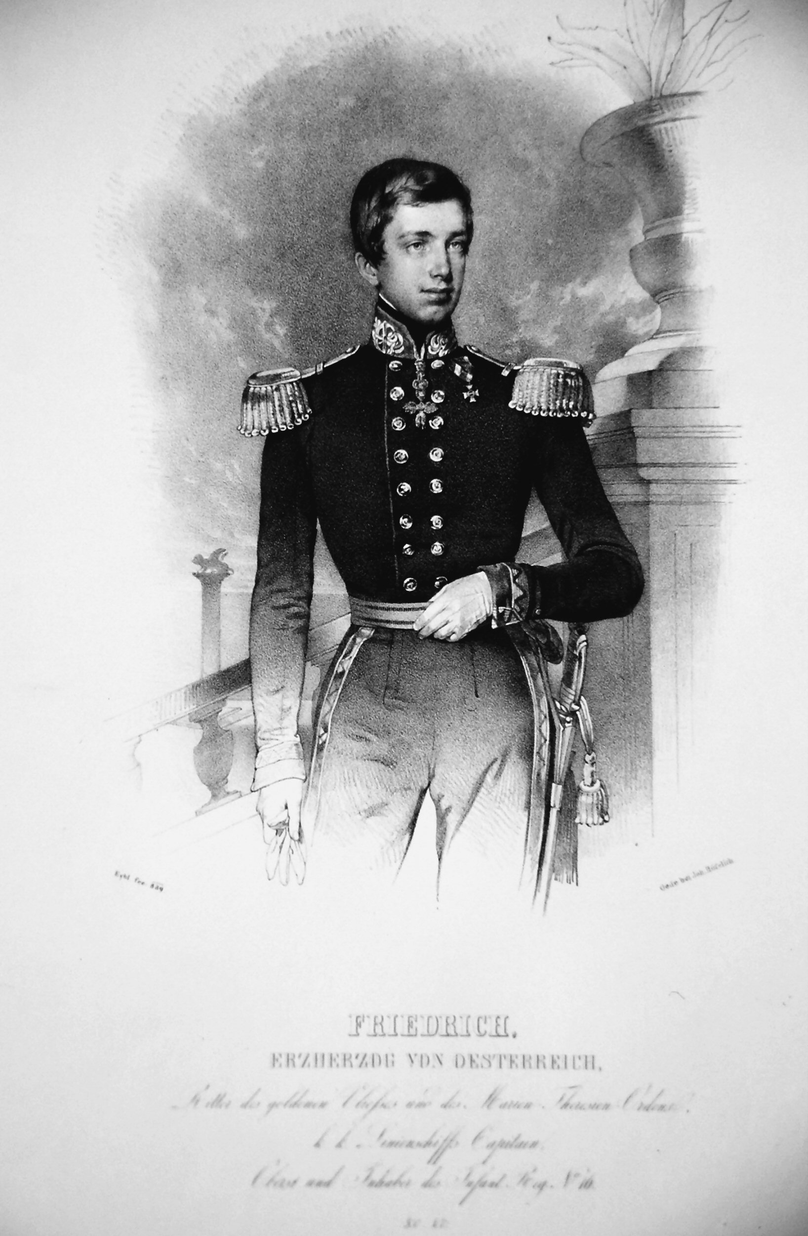 Erzherzog Friedrich Ferdinand von Österreich (1821-1847), Vizeadmiral, Oberkommandant der k. k. Flotte Lithographie von Franz Eybl, 1839